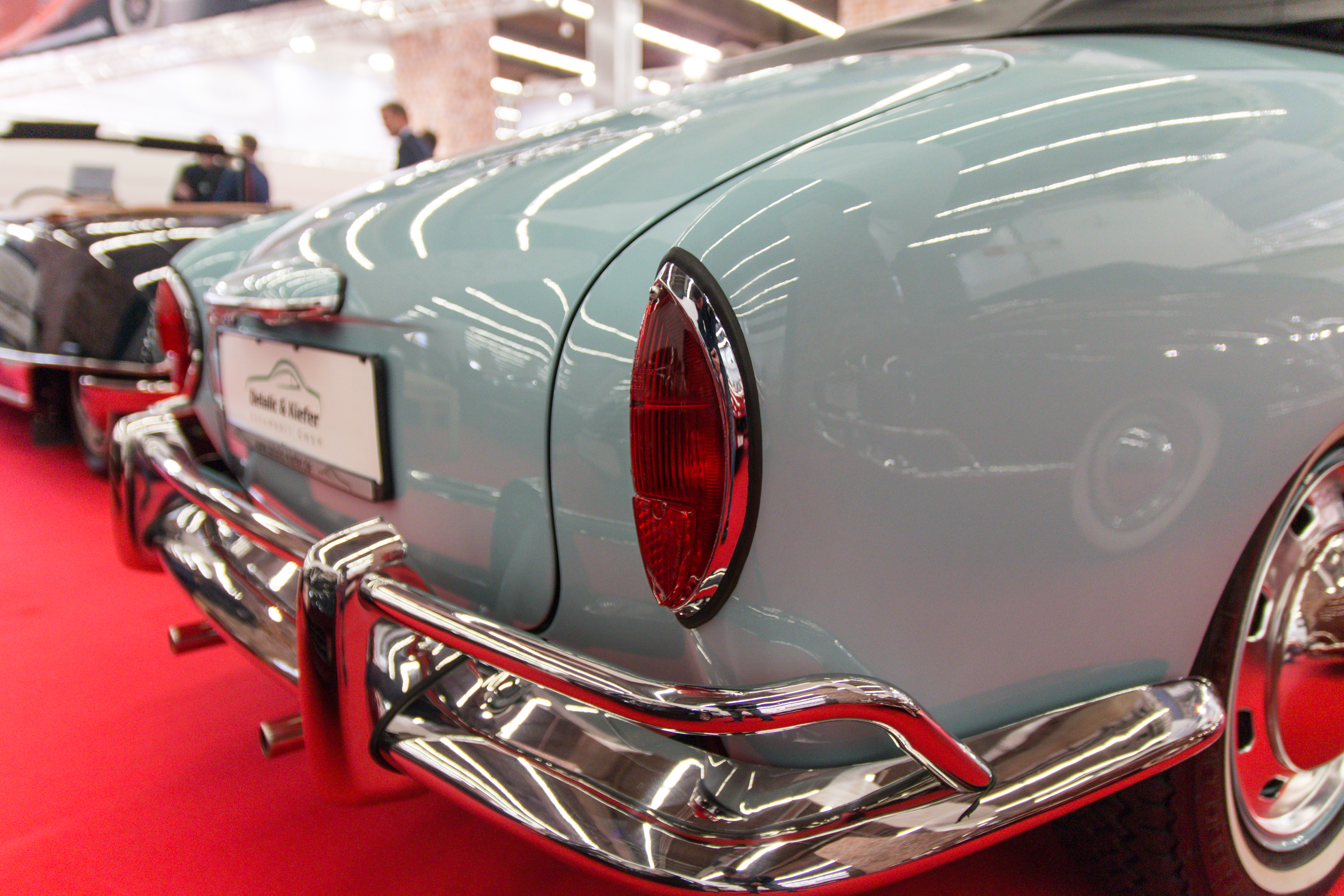 VW Karmann-Ghia Typ 14 1959